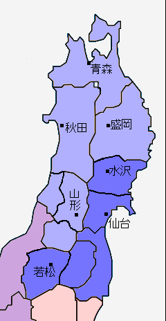 From the Six Regions Chindai Table on April 7, 1875..